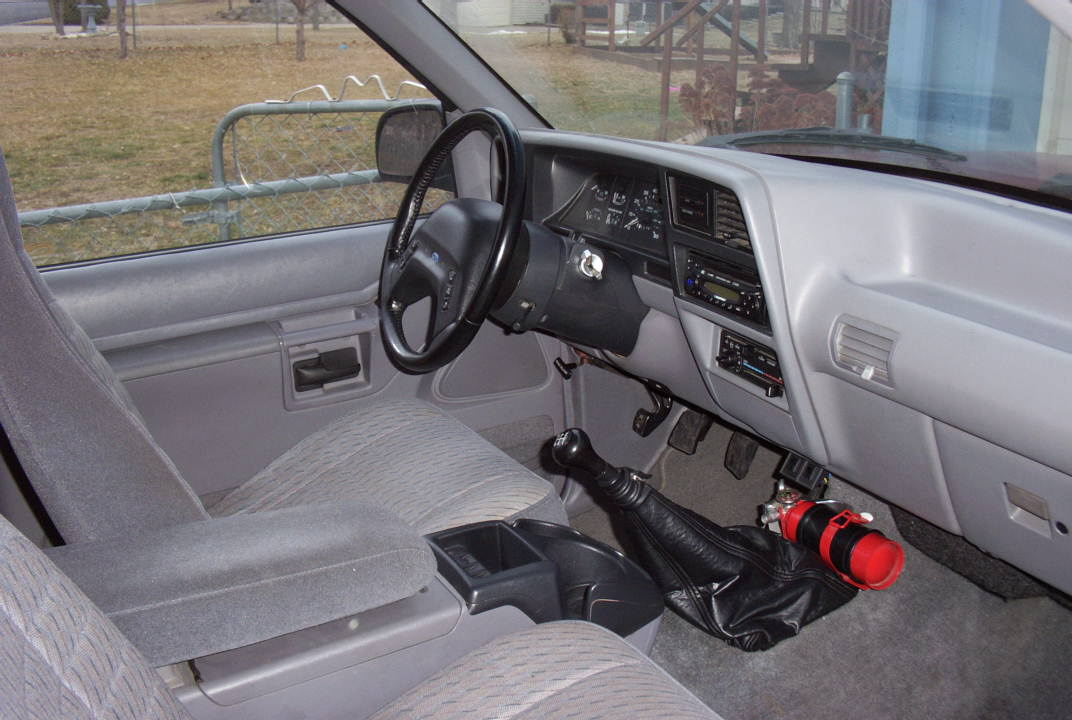 1993 Explorer Sport (2door) Interior with 5-speed Manual Transmission and 4WD